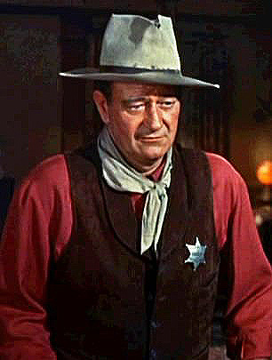 Cropped screenshot of John Wayne and Angie Dickinson from the trailer for the film Rio Bravo